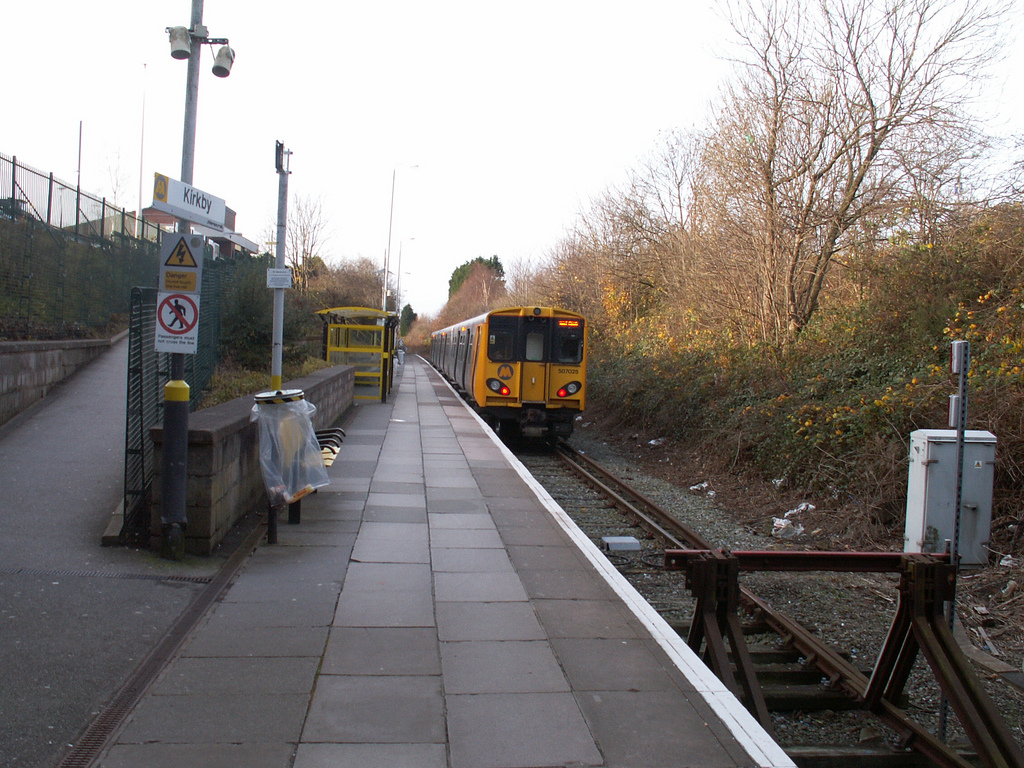 Kirkby Railway Station at Kirkby, Liverpool, England